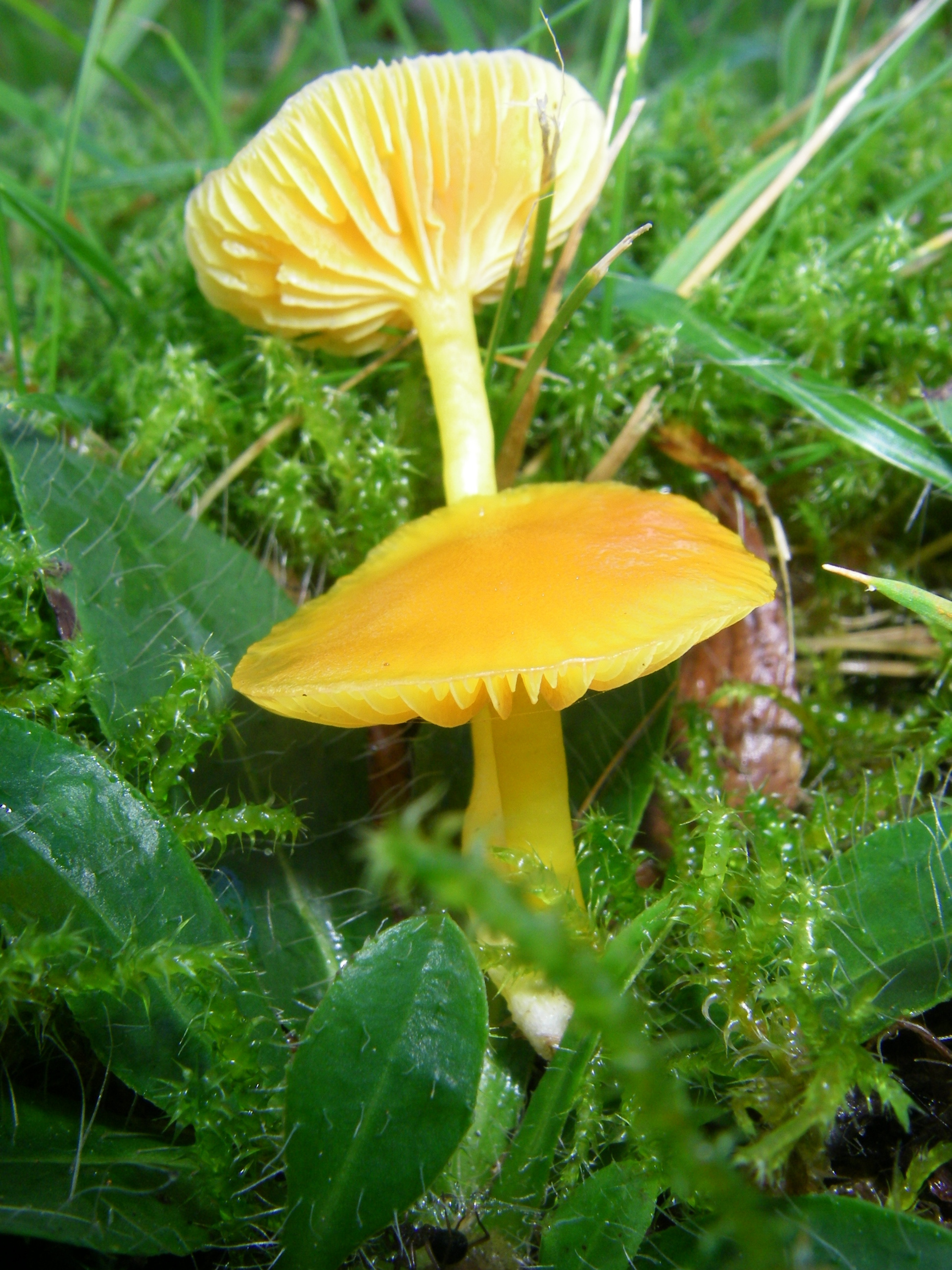 The making of this document was supported by the Community-Budget of Wikimedia Germany.